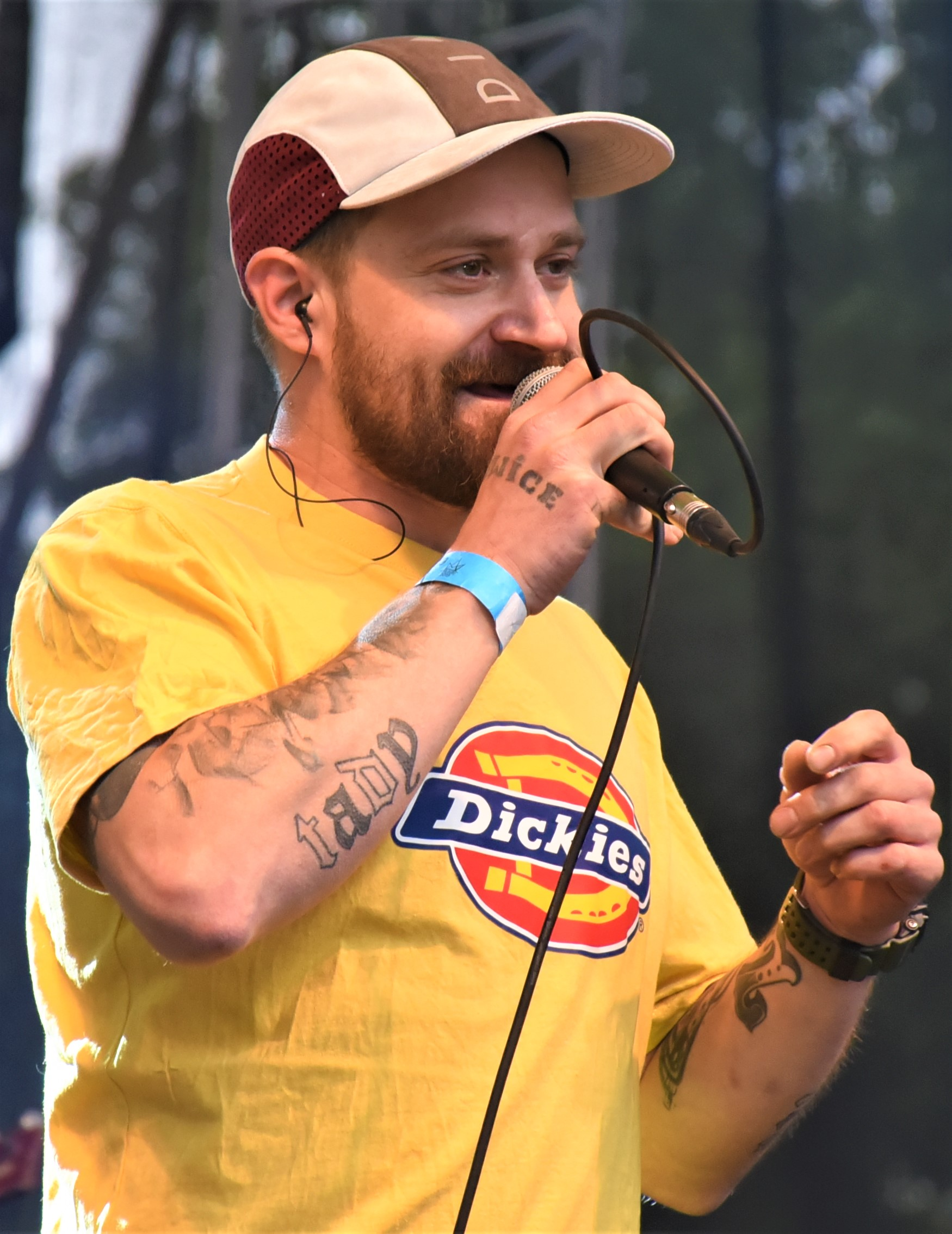 Kato, Czech rapper & DJ Аҧсшәа: Kato, český rapper & DJ